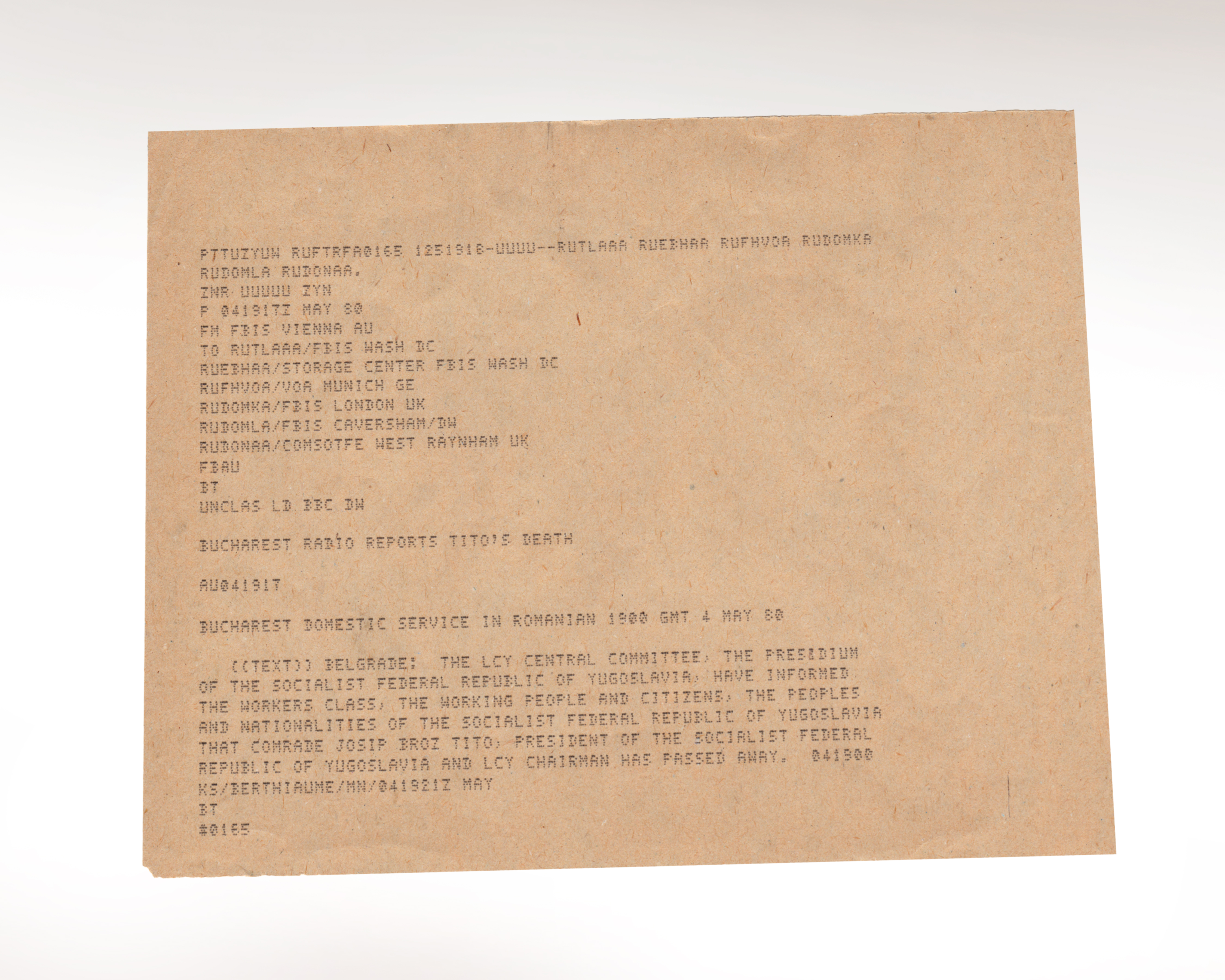 Filed on 4 May 1980 from the FBIS Austria Bureau, this message regards the Bucharest Radio announcement of President Tito’s death. It states: “The LYC Central Committee of the presidium of the Socialist Federal Republic of Yugoslavia have informed the workers class, the working people and citizens, the peoples and nationalities of the Socialist Federal Republic of Yugoslavia that comrade Josip Broz Tito, President of the Socialist Federal Republic of Yugoslavia and LCY Chairman, has passed away.” For more information on CIA history and this artifact please visit